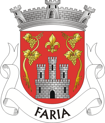 Crest of Faria, a parish in the municipality of Barcelos (Portugal)